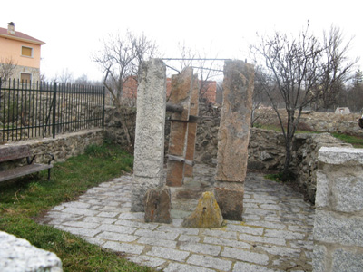 Potro herrar, San Mames (Madrid)